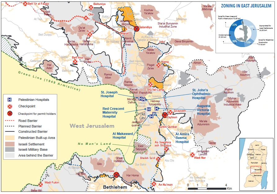 East jerusalem Zoning showing East Jerusalem Hospitals and Palestinian and Israeli areas.